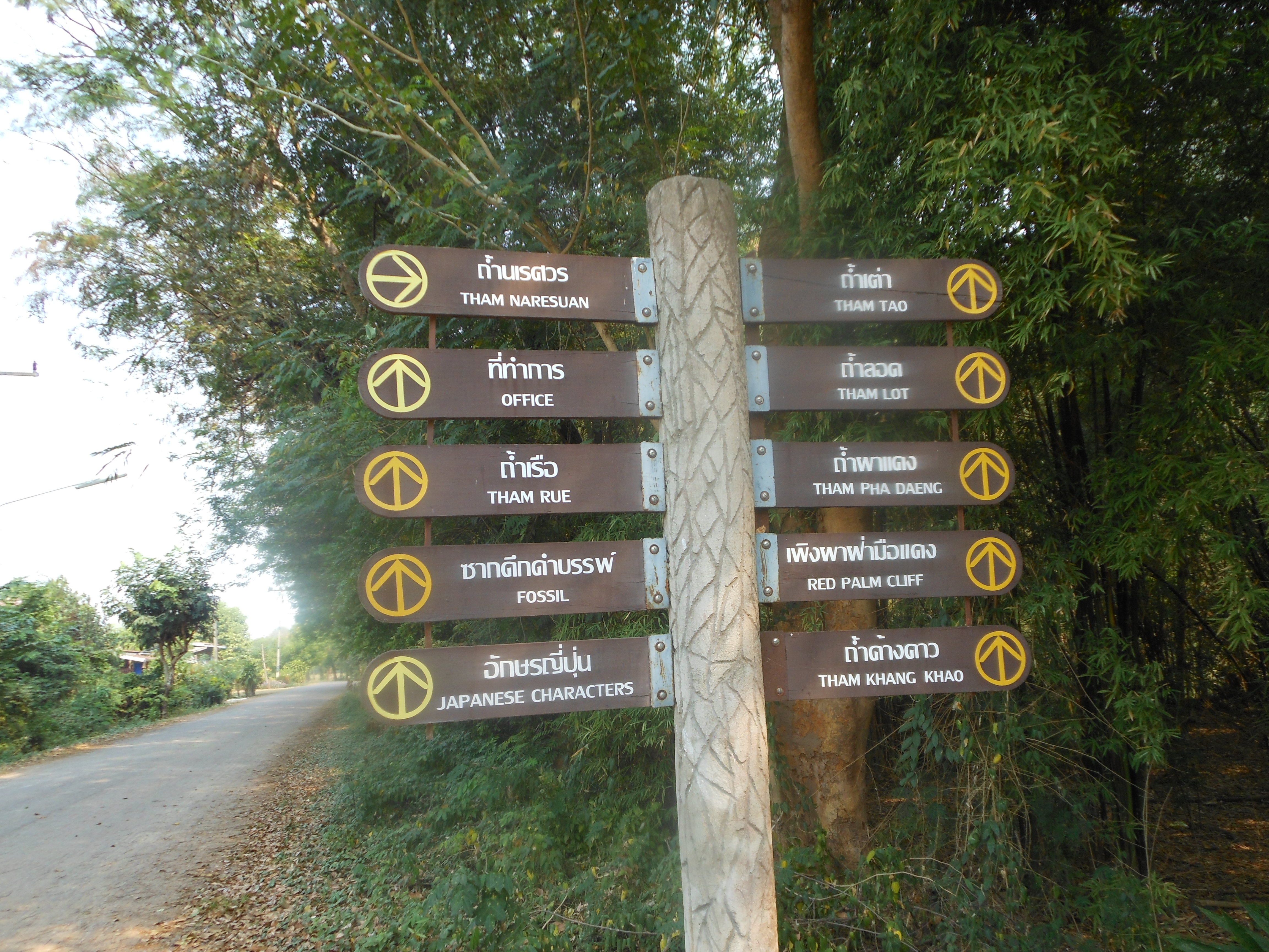 sign in Garden